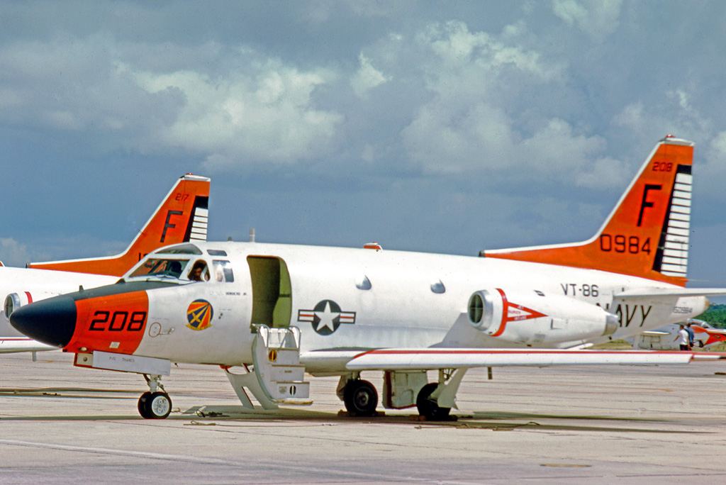 North American T-39D trainer 150984 of VT-86 Squadron at Pensacola NAS in 1975